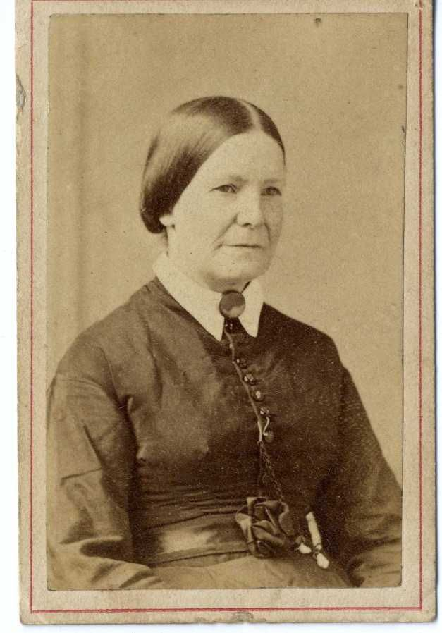 Charlotte Bradford (1813-1893), Civil War nurse